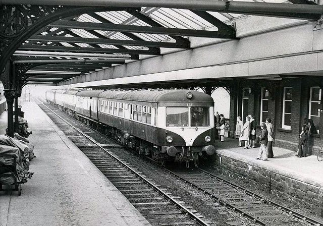 NIR passenger train headed by former GNR railcar 132 at Lisburn railway station, Co. Antrim, Northern Ireland